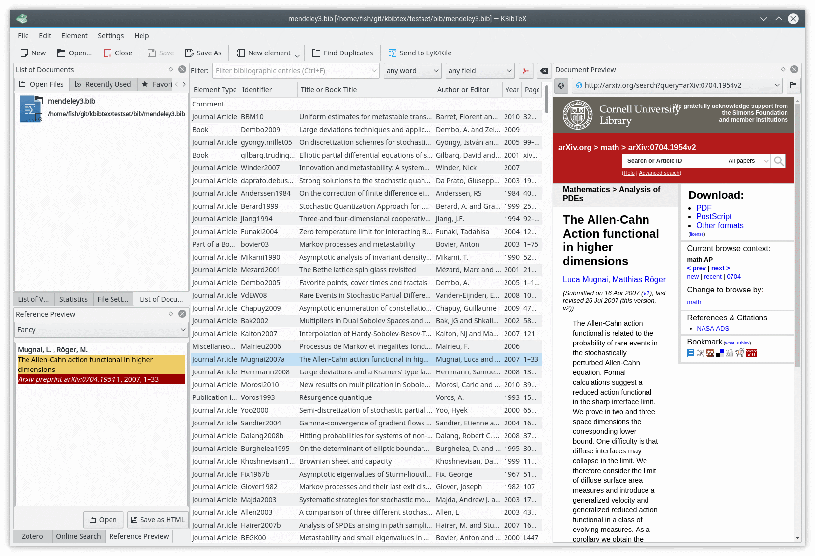 Screenshot of the development version of KBibTeX for KDE4 as of 2010-10-11.